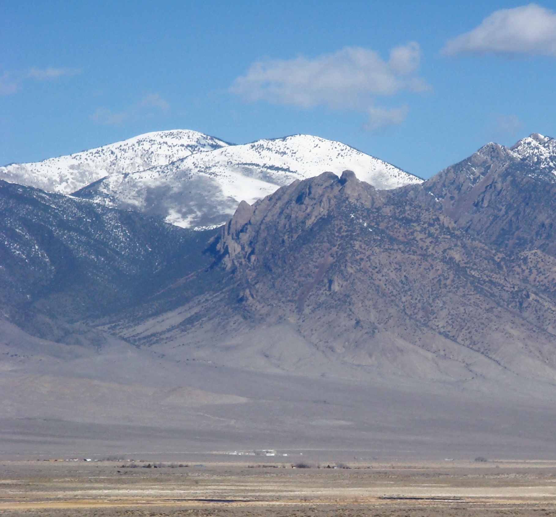 Crop of original image, no other modifications